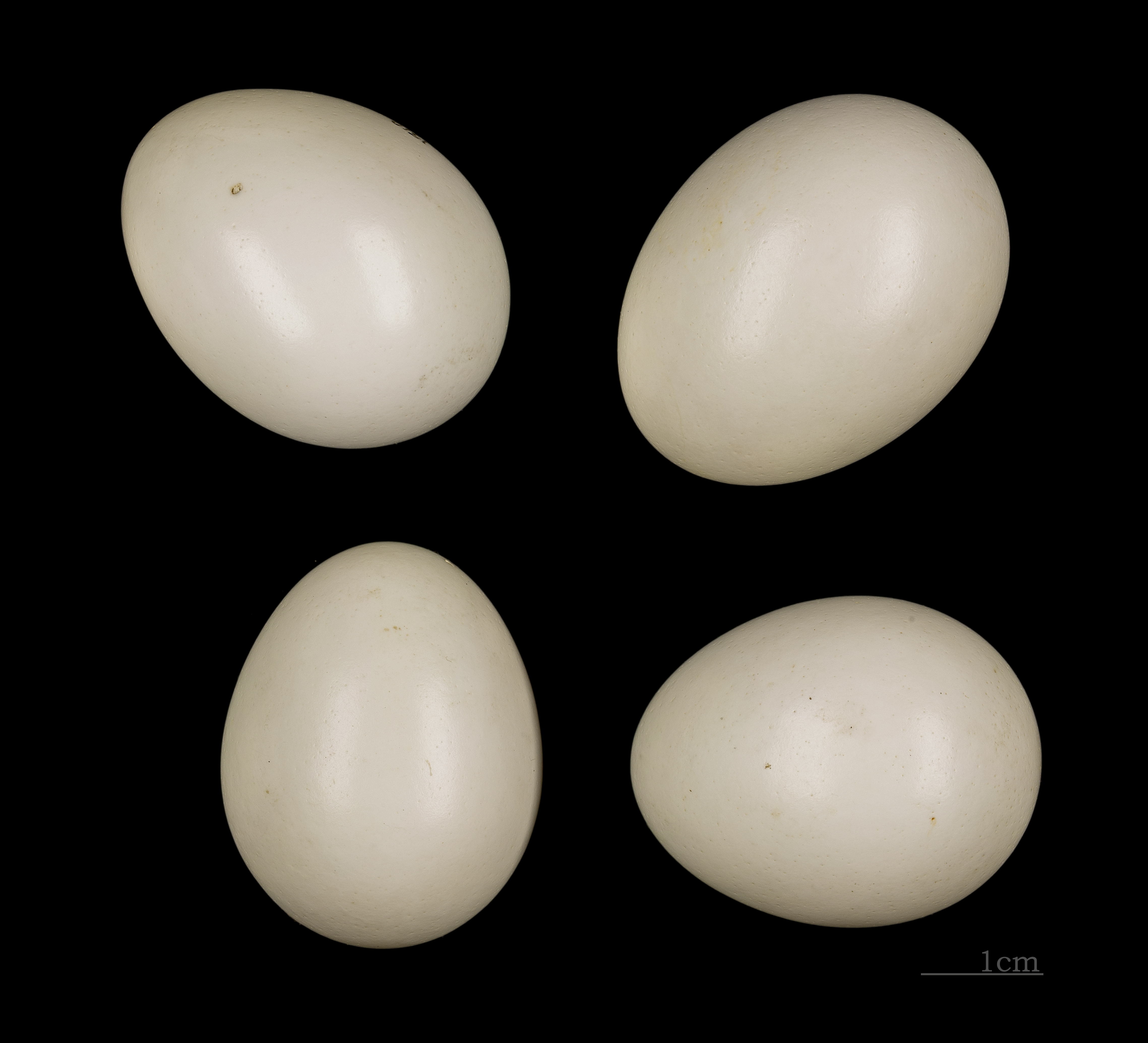 Egg of European Roller. Collection of Henri Heim de Balsac /Jacques Perrin de Brichambaut.